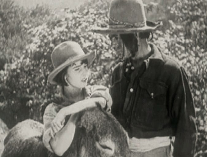 Elvira Weil & Frank Lanning in Another Man's Boots - cropped screenshot